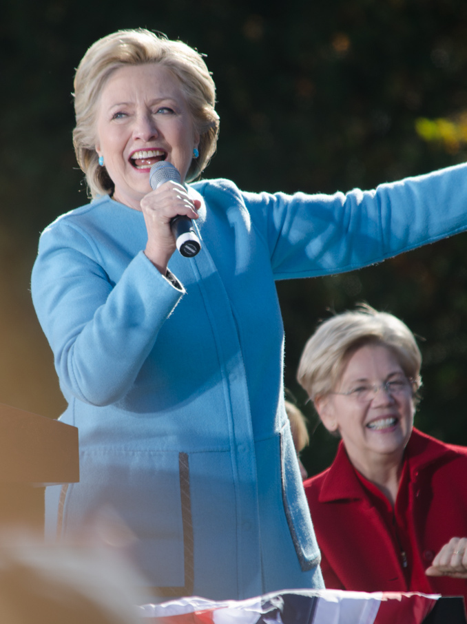 Hillary Clinton, with Massachusetts Senator Elizabeth Warren seated in the background, campaigning for President in Manchester, New Hampshire in October 2016.